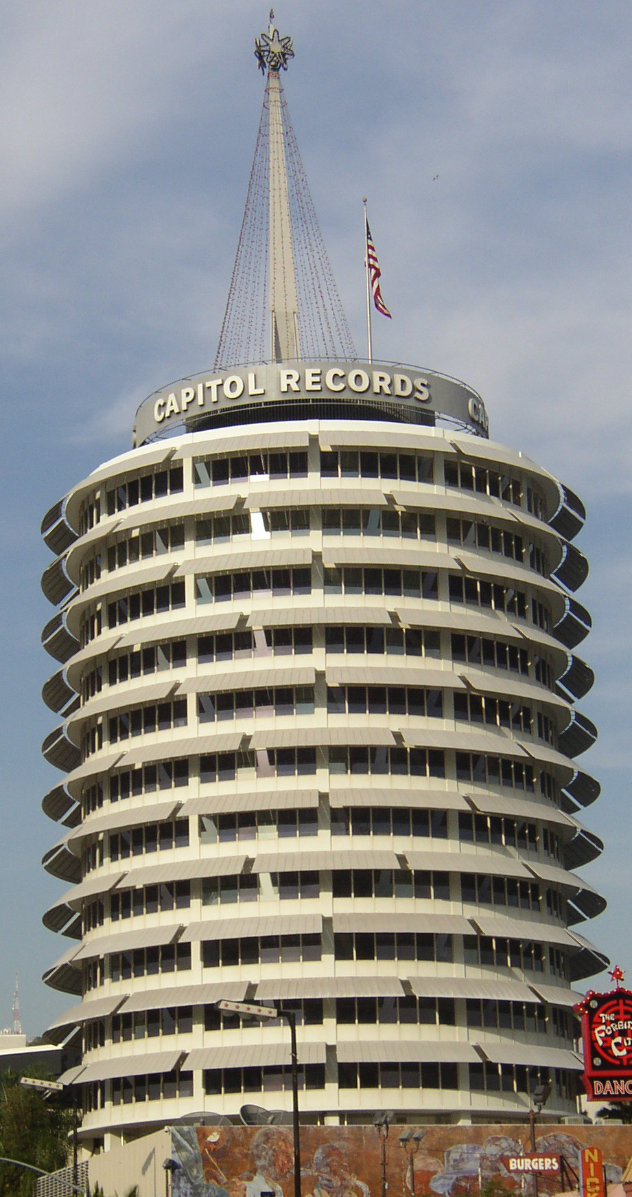 The Capitol Records Building is a 13-story distinct landmark in Hollywood, California built in 1956 and designed by the architectural firm Welton Becket & Associates. A Los Angeles Historic-Cultural Monument located at 1740-1750 N. Vine St. and 6236 W. Yucca St. - Hollywood. Taken by AllyUnion.